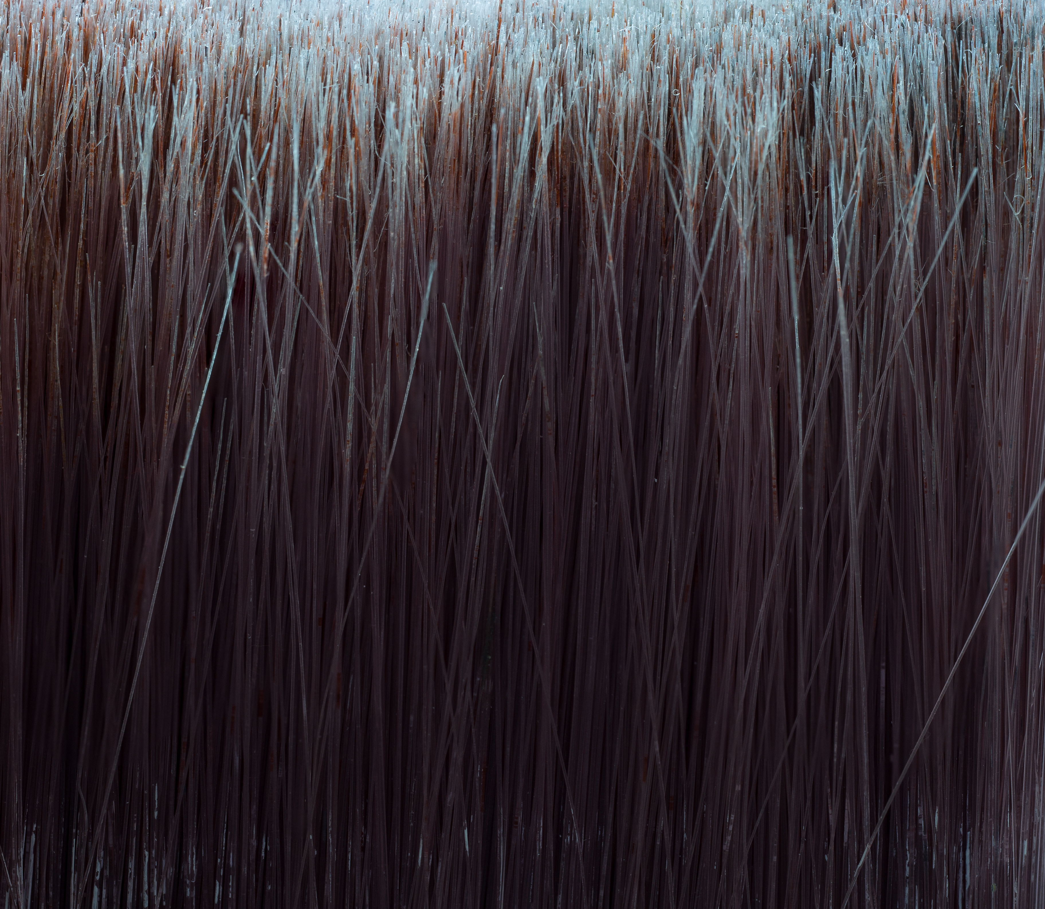 Closeup of a paintbrush (from an image stack).